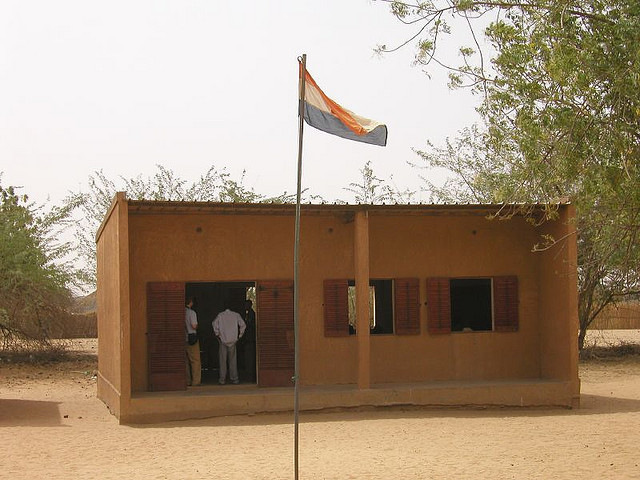 Outside of a classroom at Fakaye - about 15km of bush travel from Filingue in Niger.